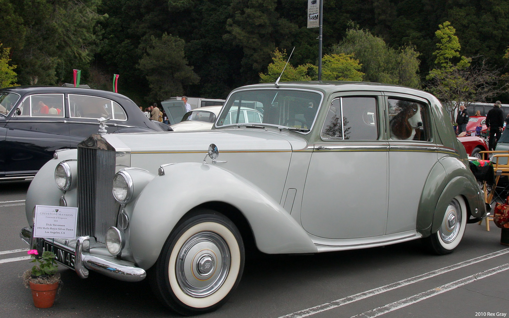 Greystone Mansion Inaugural Concours d'Elegance, April 11, 2010